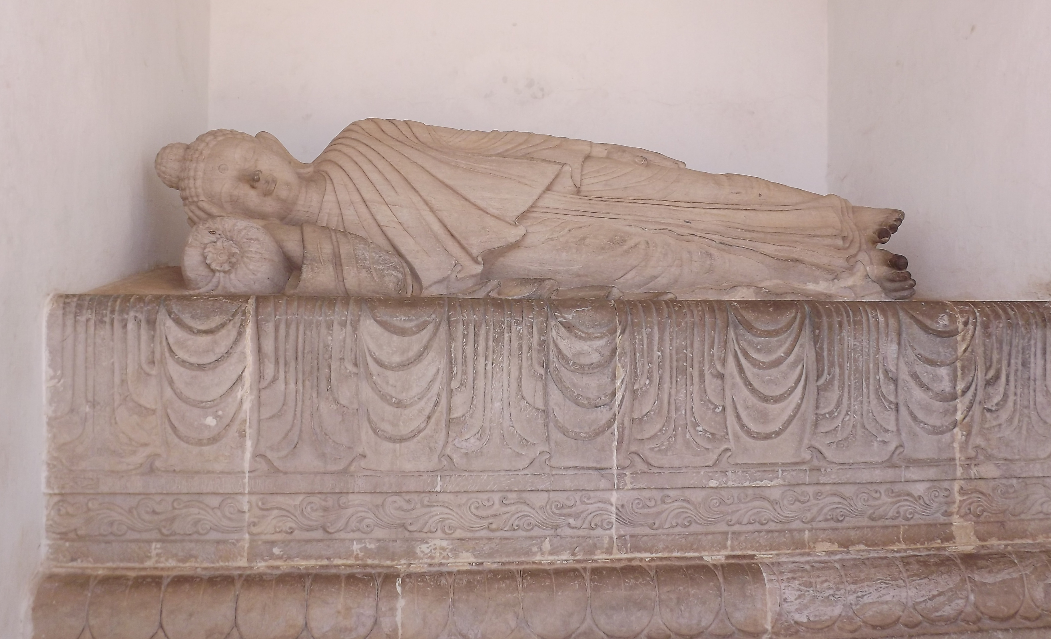 Slleping Buddha Statue in Dhauli Shanti Stupa